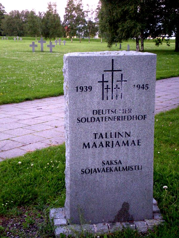 War Memorial, between Kadriorg and Pirita